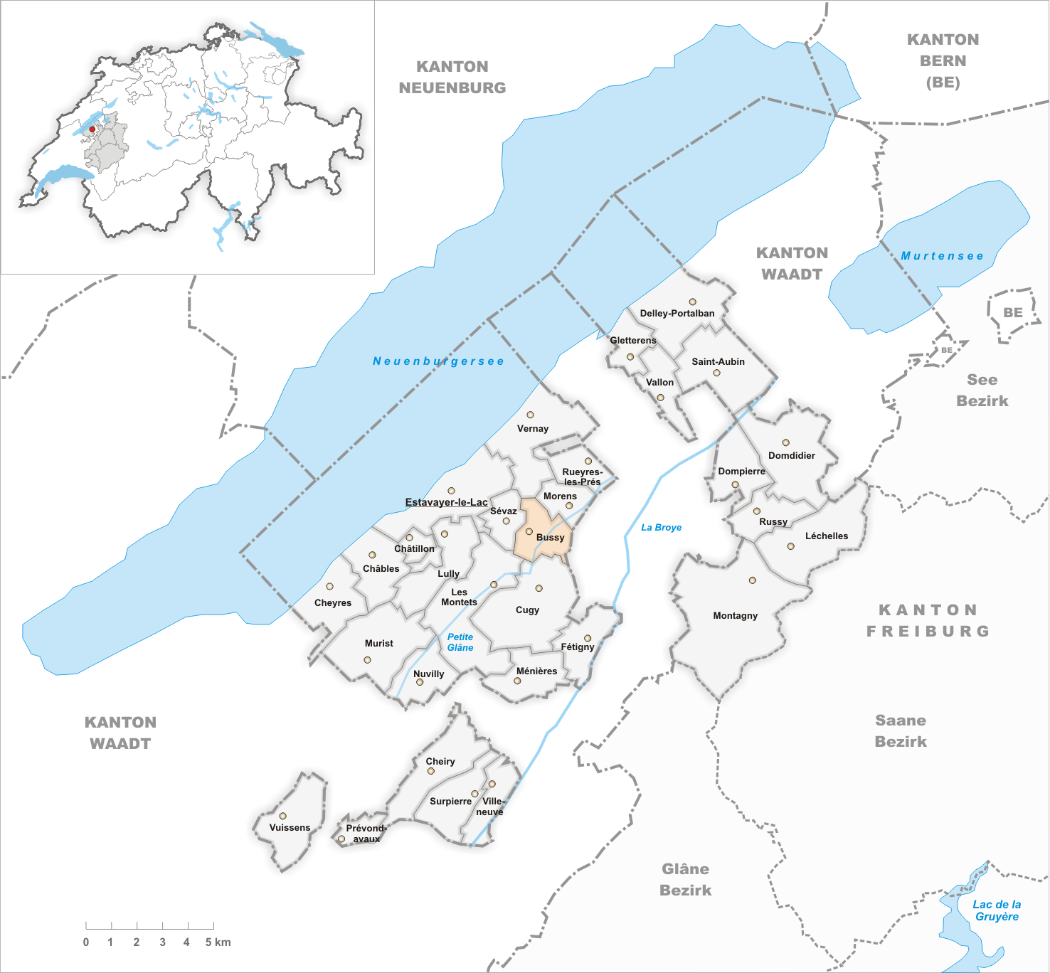 Municipality Bussy